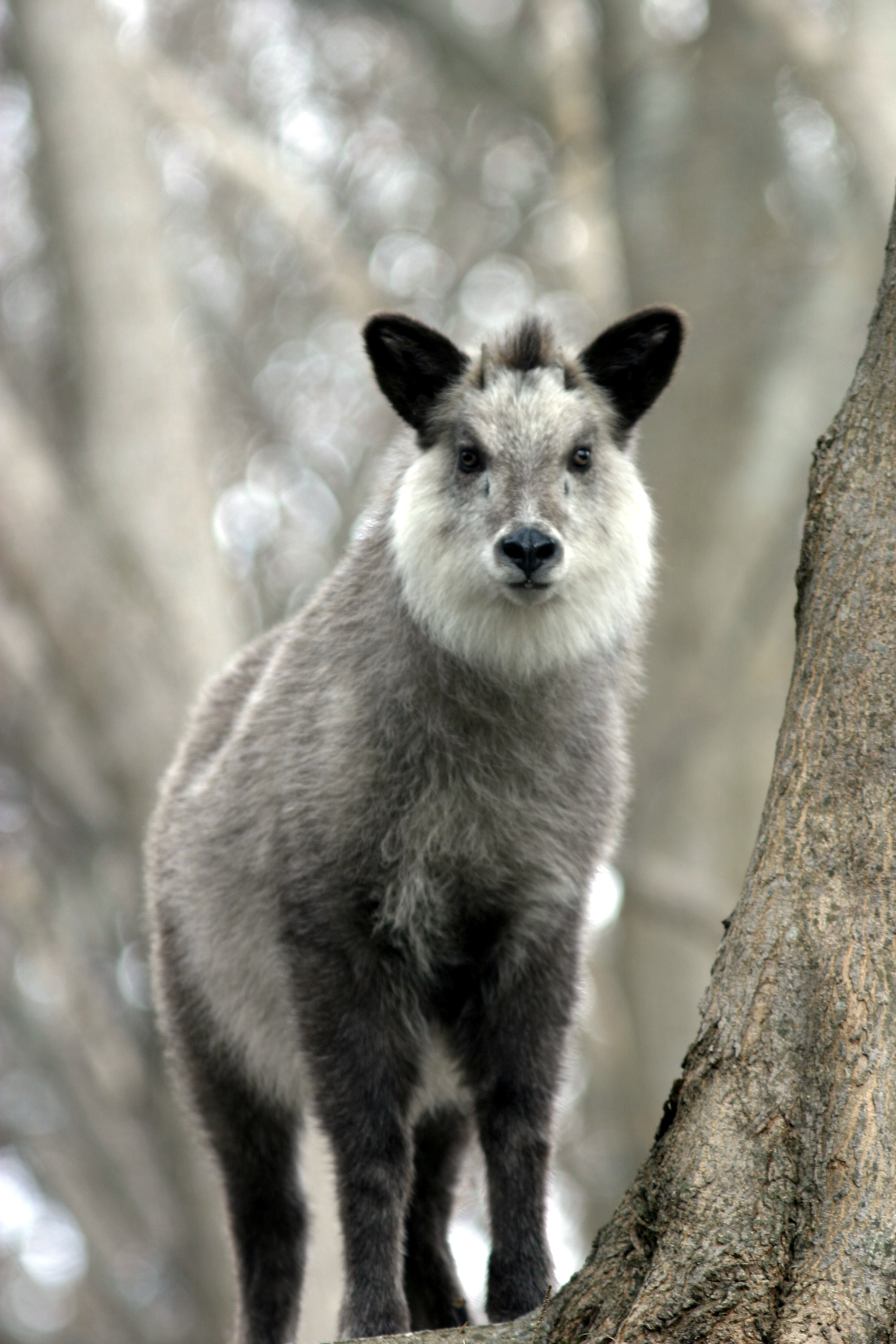 Japanese Serow outside of Wakinosawa, Japan